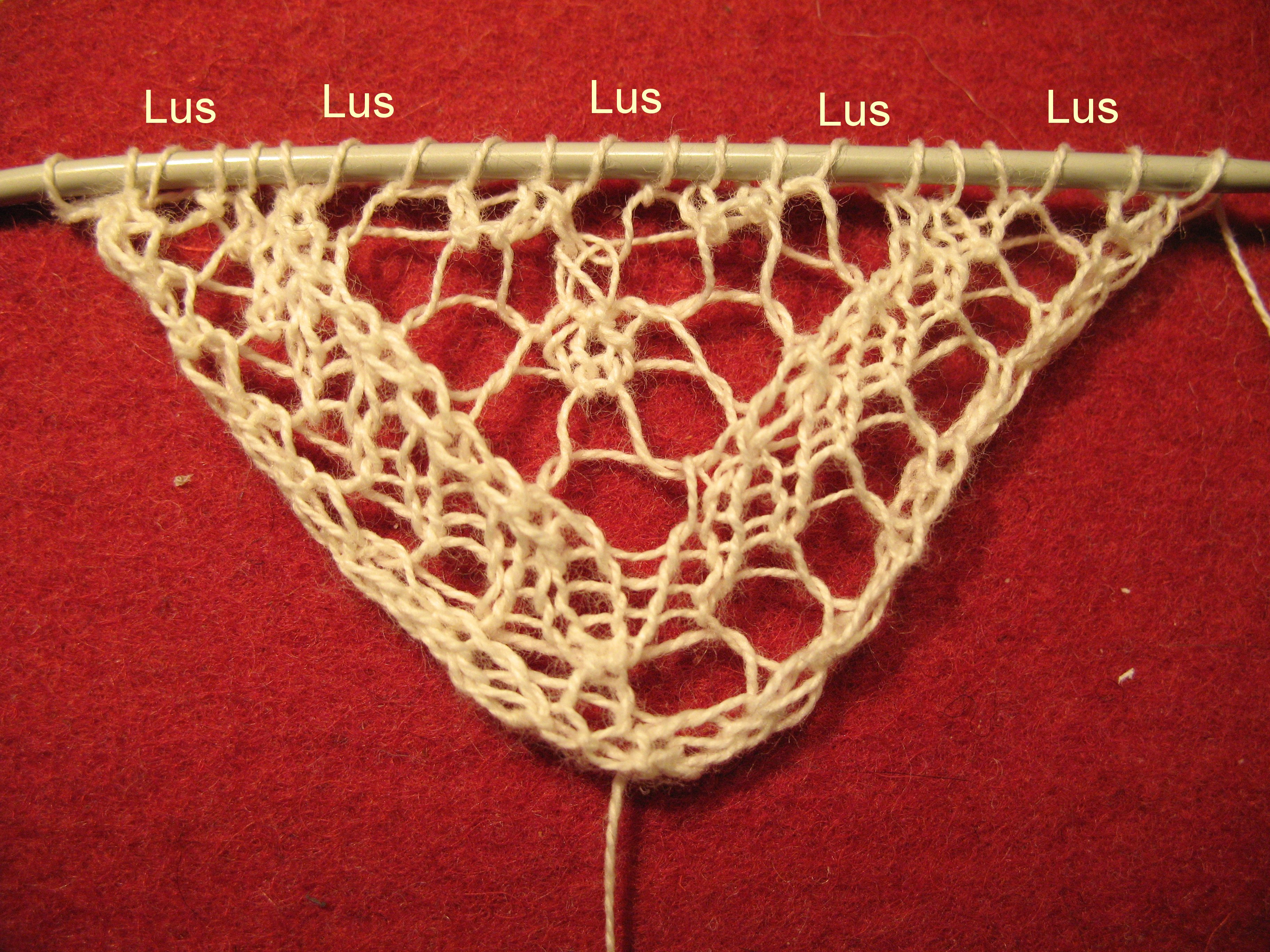 Very thin cotton yarn on thin needles..., with annotations in Dutch language